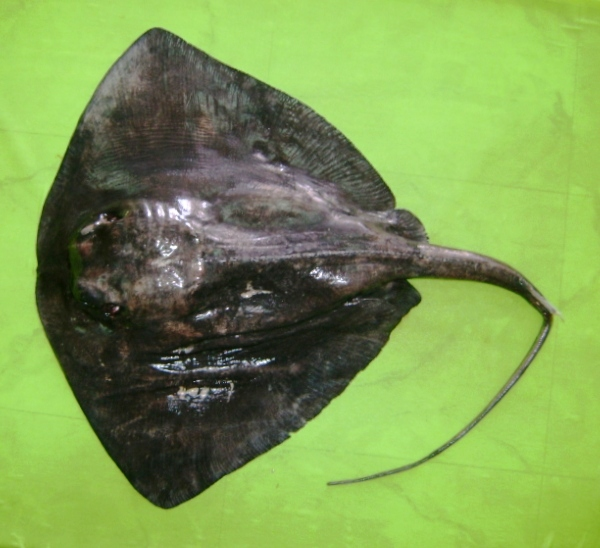 Pteroplatytrygon violacea collected in Karachi, Pakistan.